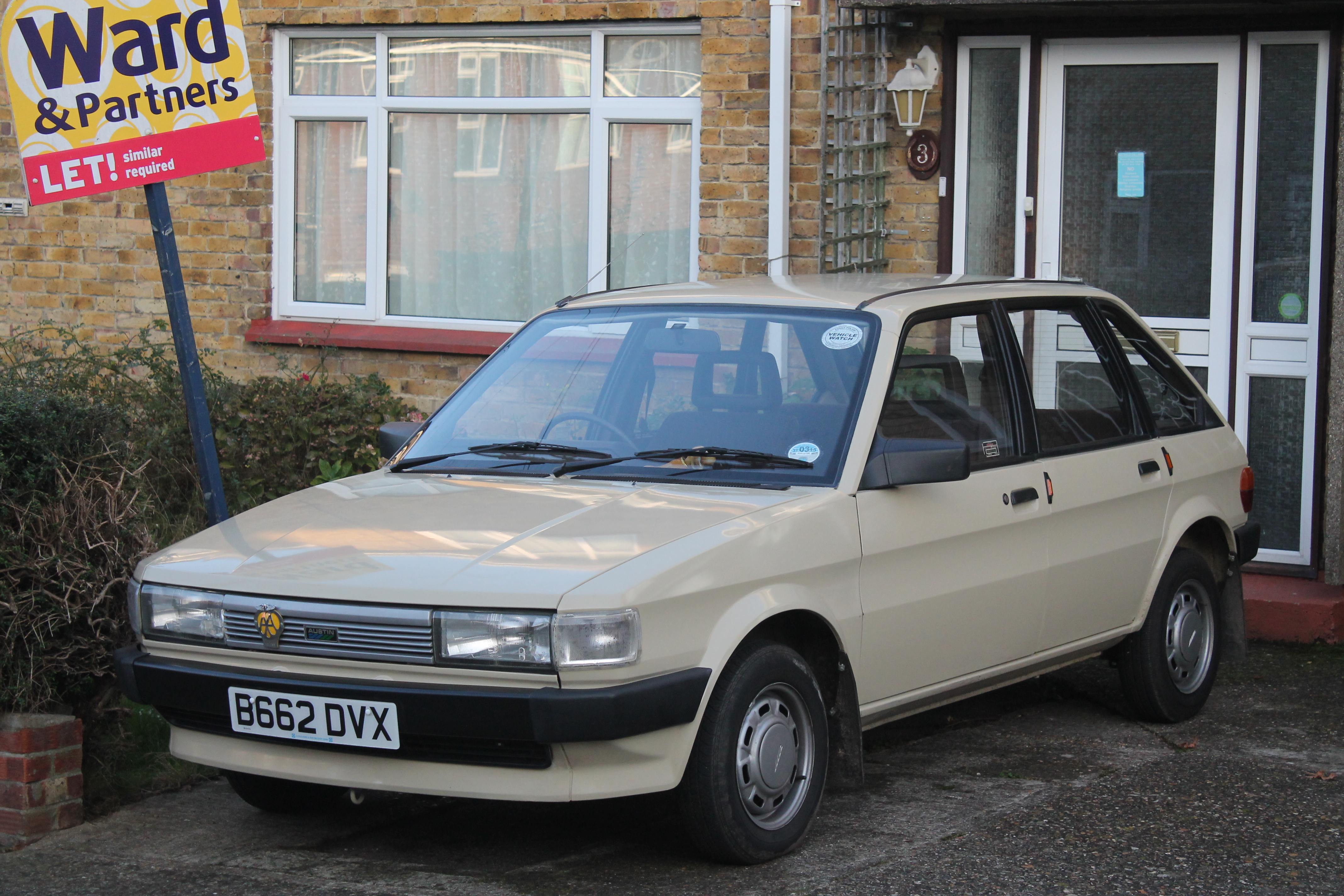 This made my day seeing this lovely early Austin Maestro. At the time, i didn't realise it was owned by fellow Flickr member Angrydicky. I just love the colour, and he's done a fantastic job of getting it as original as possible, right down to the plates and steel wheels. This really must be one of the very last early base models still on the roads. I haven't even seen a later Maestro car for over a year now! There were other cars of interest in the immediate area, a bit of a hotspot really which I hadn't previously explored!